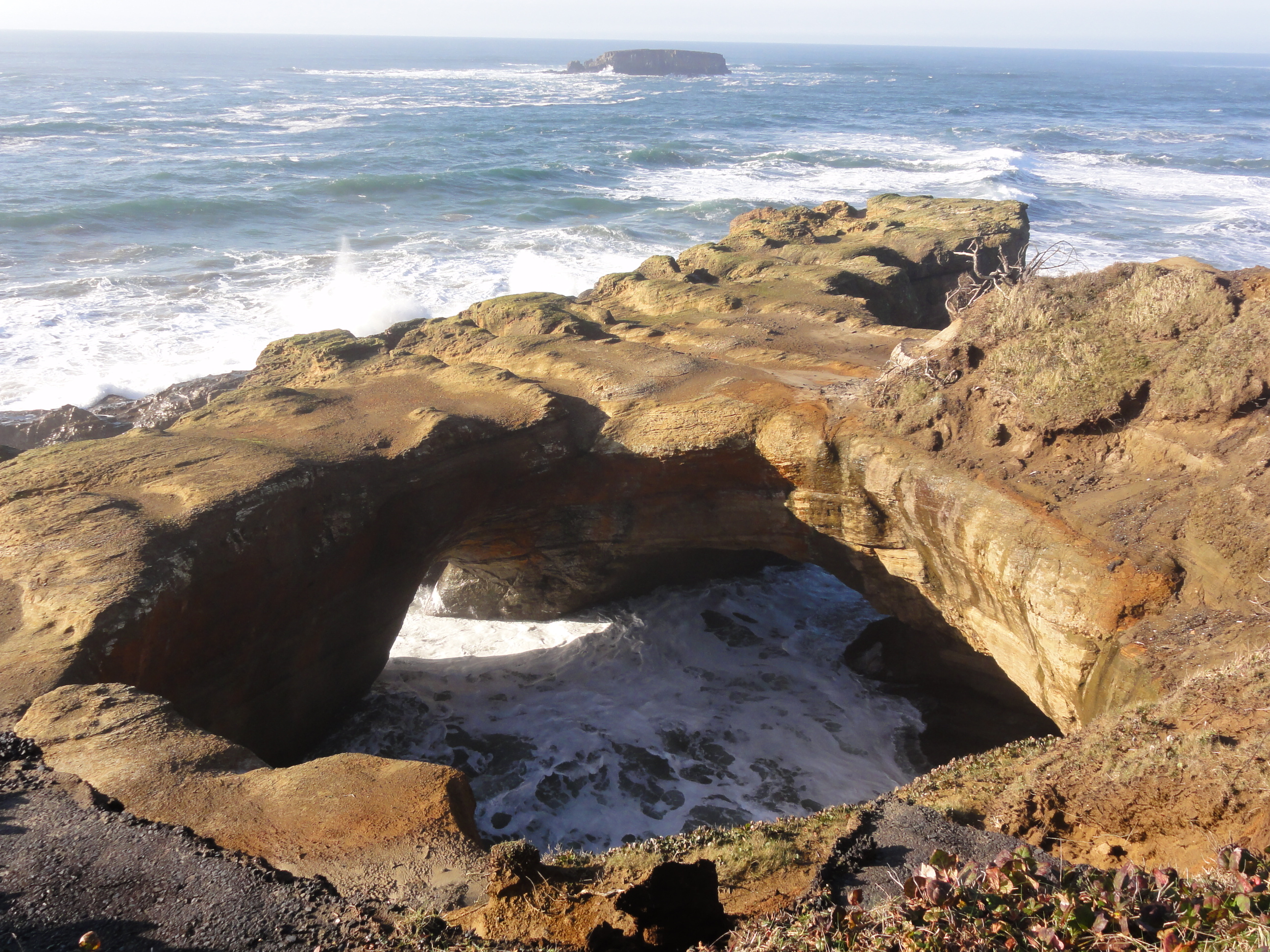 Devil's Punchbowl, Oregon, United States